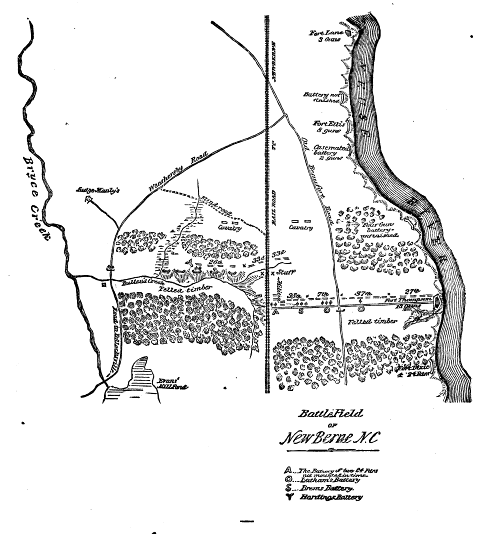 Map prepared for Brig. Gen. L. O'B. Branch, CSA, showing Confederate defenses for the Battle of New Bern, North Carolina, 14 March 1862.